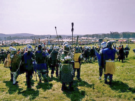 Pennsic 32 before the field battle as shot from the east kingdoms side